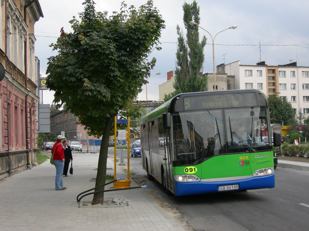 Solaris Urbino 12 E3 bus (#091) in Bielsko-Biała, Poland. Built 2002, MZK Bielsko-Biała operator.